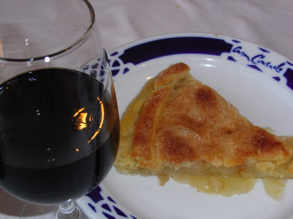 A glass of Pedro Ximenez wine from Lustau and a Spanish dessert